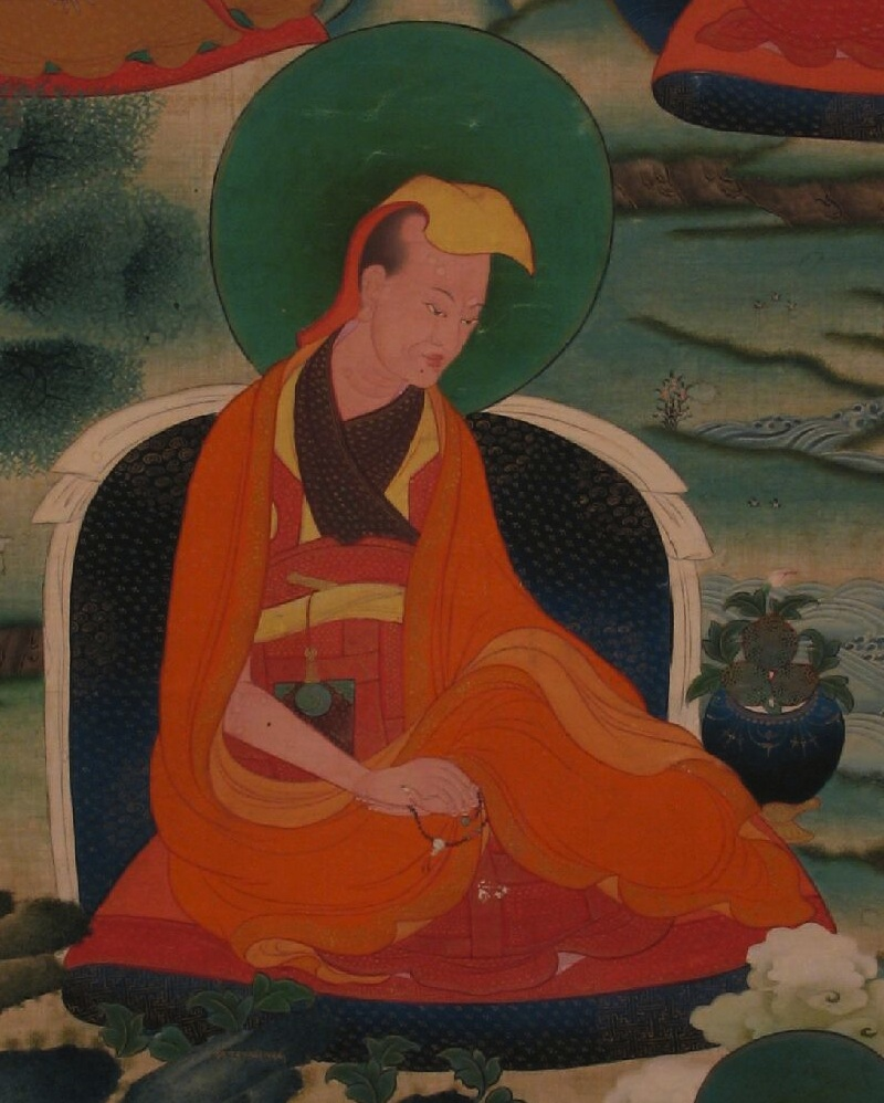 Duldzin Drakpa Gyeltsen (b.1374 - d.1434), fifteenth century Tibetan scholar